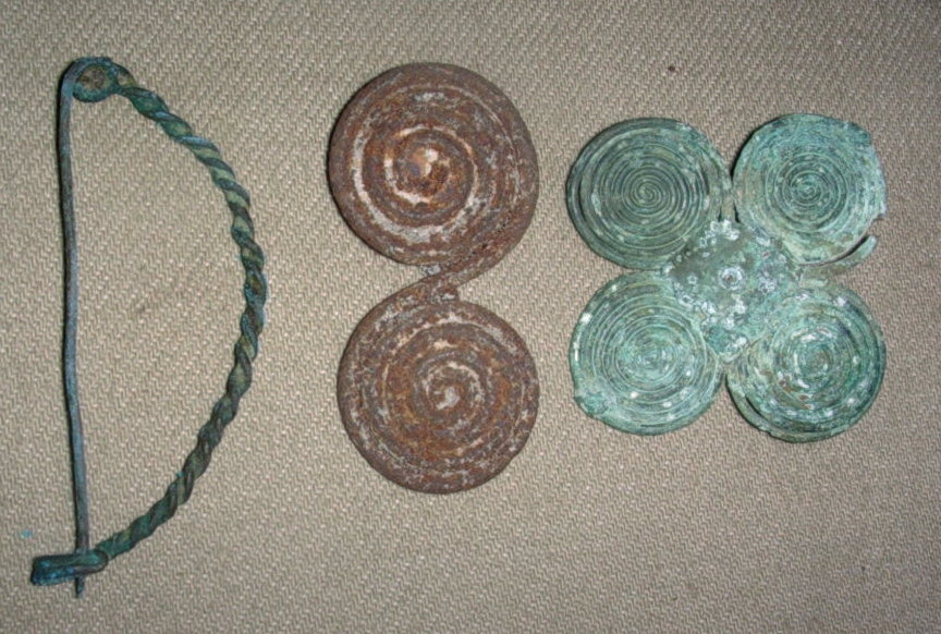 Early Fibulae (Left to right.) Bow, or Bogen, Fibula, with twisted bow. 10th-9th c. BCE. Spectacle, or Brillen, Fibula, in iron. St. Lucia type. Thraco-Cimmerian. 9th-8th c. BCE. Double Spectacle, or Vierpass, Fibula. Greek. 8th c. BCE.